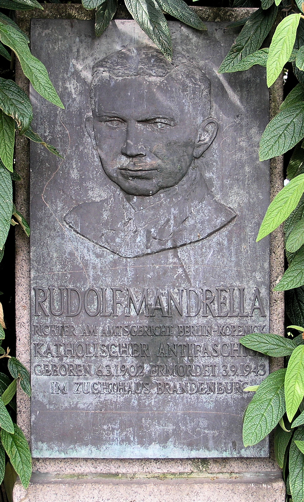 Memorial plaque, Rudolf Mandrella, Mandrellaplatz 6, Berlin-Köpenick, Germany Koordinate:52°27′20″N 13°34′48″E / 52.45556°N 13.58°E